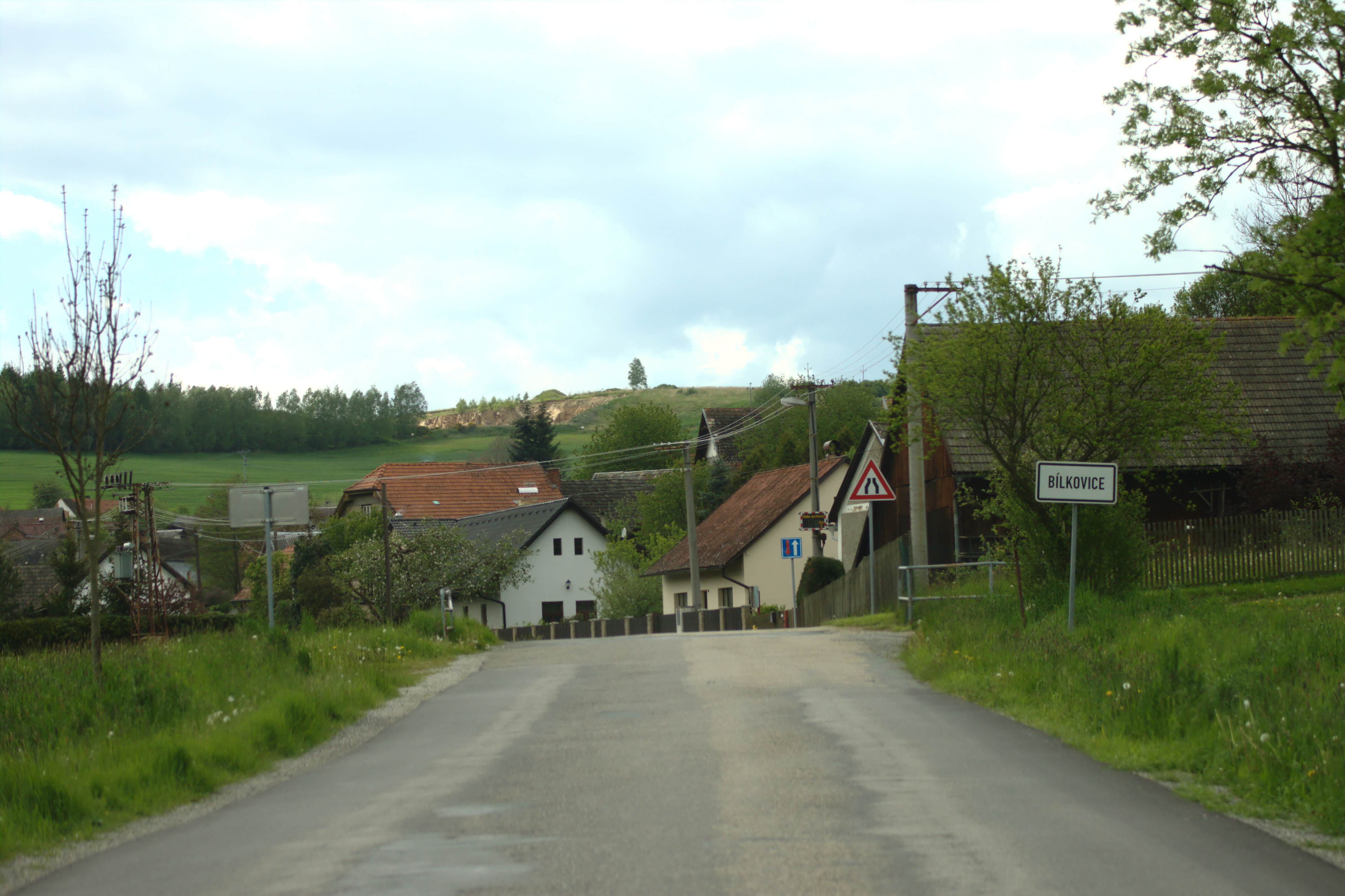 A road to the Bílkovice village in Benešov District, CZ Project: Fotíme Česko